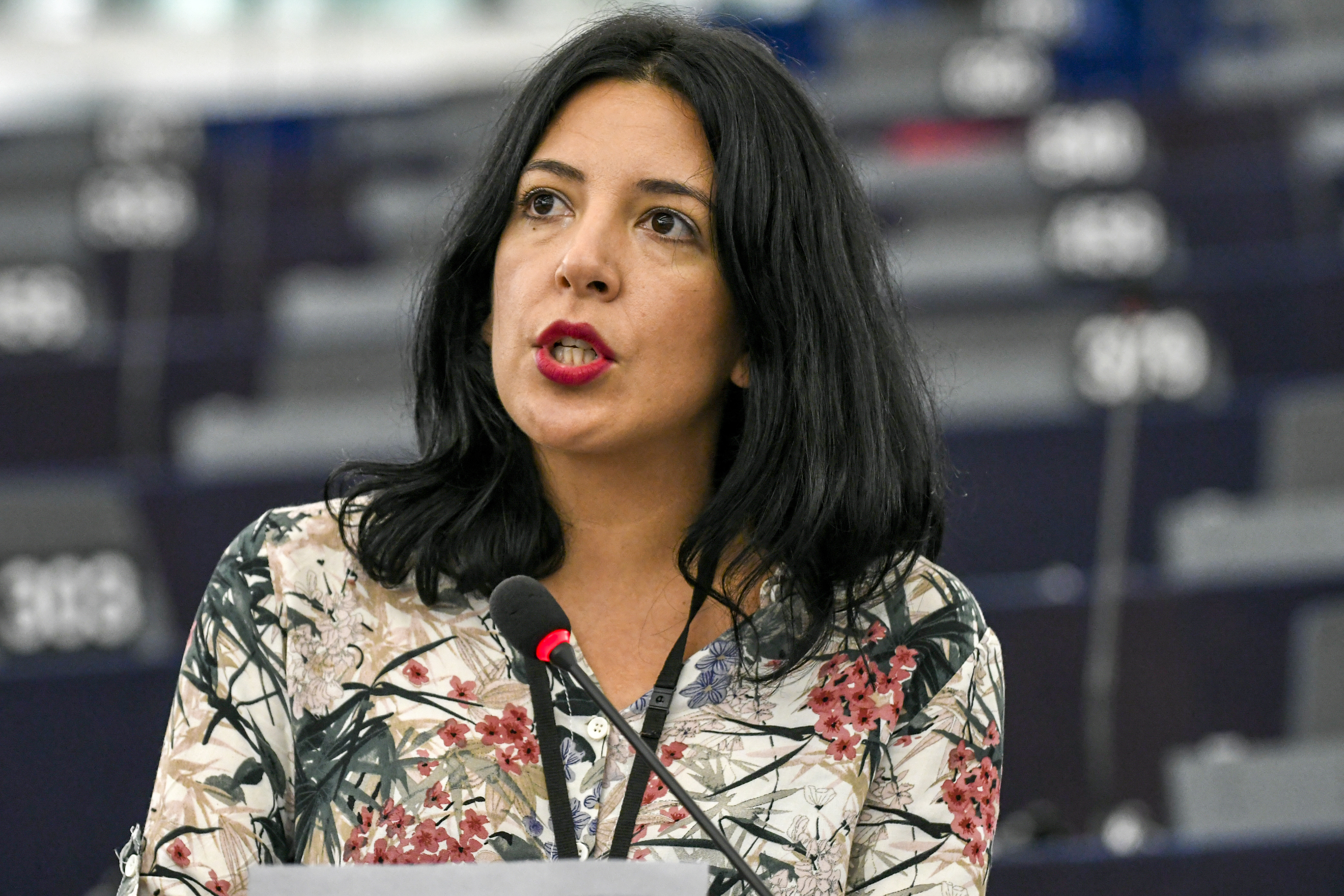 Plenary session - Debates on cases of breaches of human rights, democracy and the rule of law (Rule 144) •The proposed new Criminal Code of Indonesia